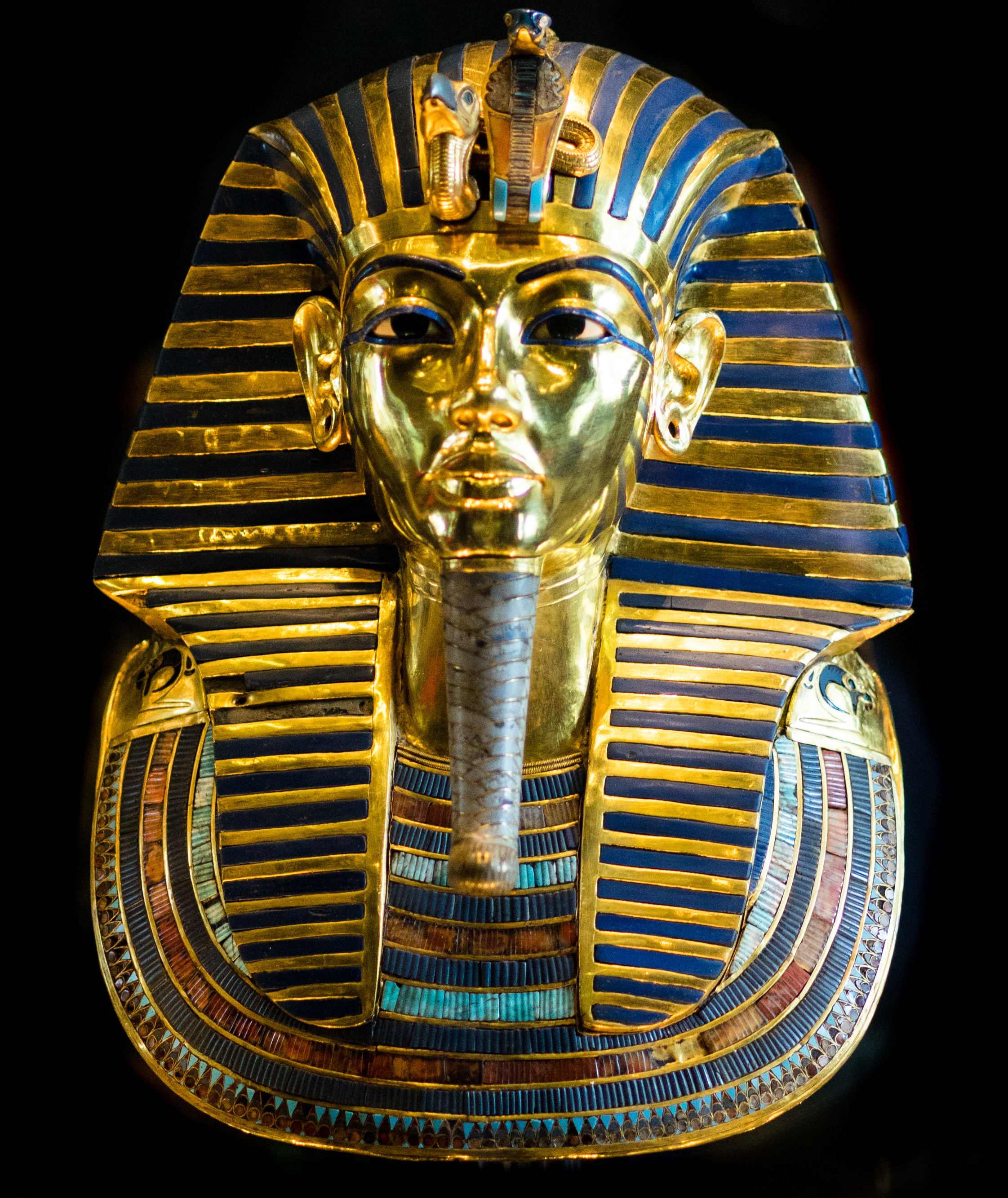 The famous burial mask of King Tutankhamun on display at the Egyptian Museum in Cairo, Egypt. The 24 pound (11 kilogram) mask is made of gold, glass, and precious stones. The nemes headdress features a vulture, symbolizing sovereignty over Upper Egypt, and a cobra, symbolizing sovereignty over Lower Egypt.